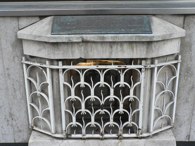 City of London: London Stone It is a shame it is so ill-lit – indeed stumbling upon this curiosity it was not easy even to see in the chamber with the naked eye, until bending down to observe the better lit top of the stone. The plaque reads: This is a fragment of the original piece of limestone once securely fixed in the ground now fronting Cannon Street Station. Removed in 1742 to the north side of the street, in 1798 it was built into the south side of the Church of St. Swithun London Stone which stood here until demolished in 1962. Its origin and purpose are unknown but in 1188 there was a reference to Henry, son of Eylwin de Londenstane, subsequently Lord Mayor of London.